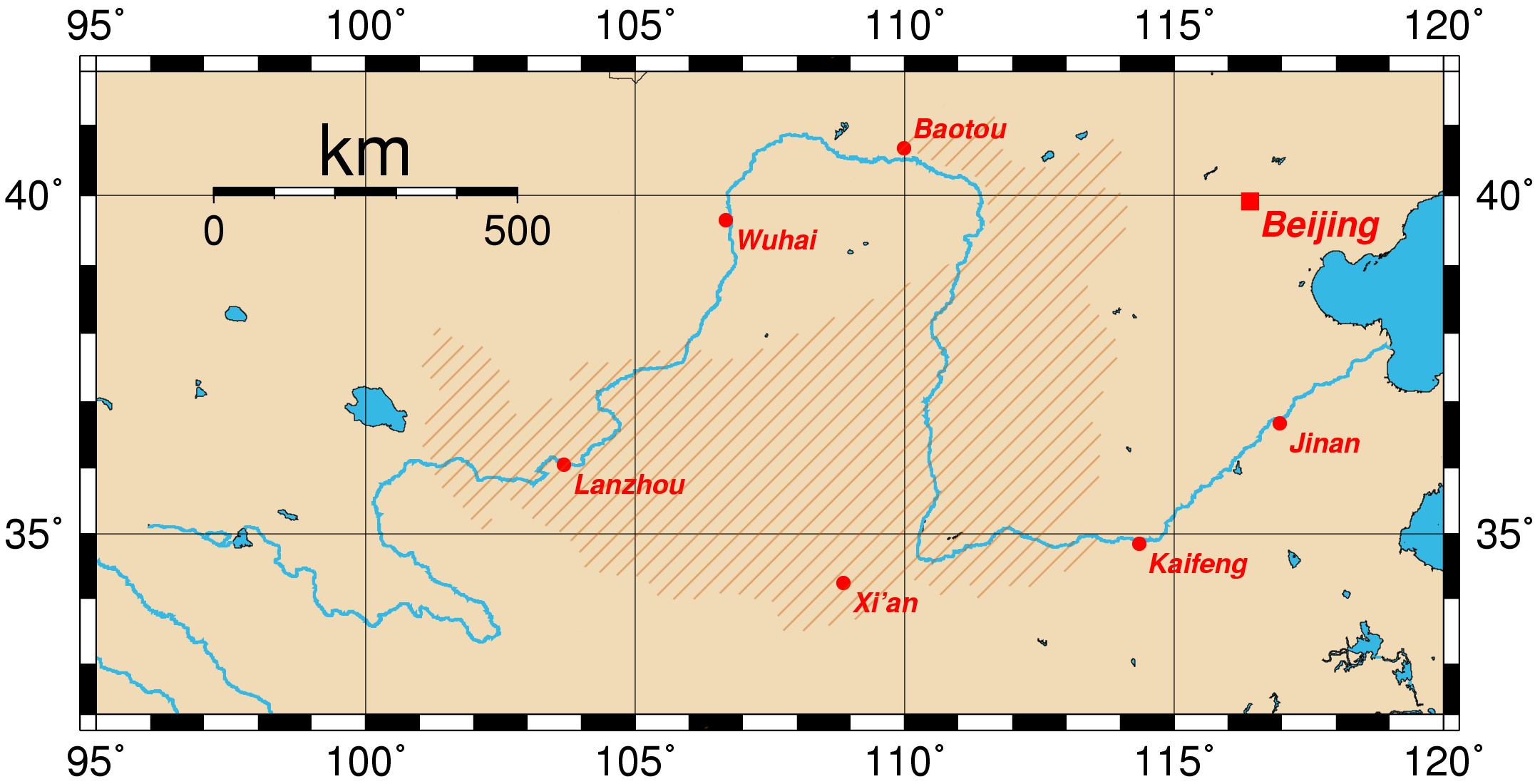 Localisation of the Loess Plateau (hachured area) - based upon the maps in Regional impacts of re-vegetation on water resources of the Loess Plateau, China and the Middle and Upper Murrumbidgee Catchment, Australia (CSIRO) and the map of distribution of desert landscapes in China (in Desert research in northwestern China. A brief review, Xiaoping Yang) - and the Huang He valley (Yellow River) in China. Depending on the authors, the Ordos Desert (Northwest) is included or not (the present option).